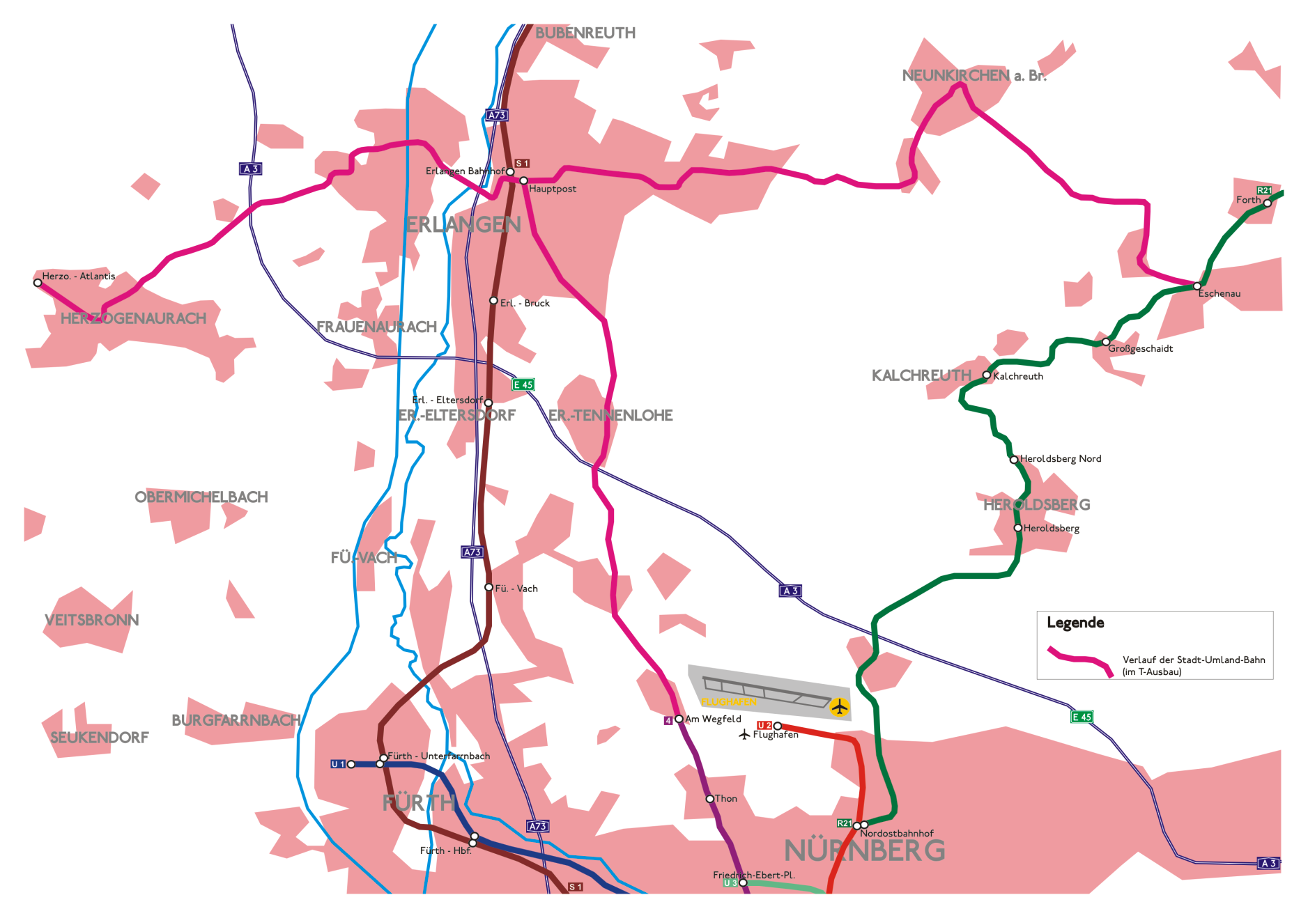 stadt umland bahn erlangen